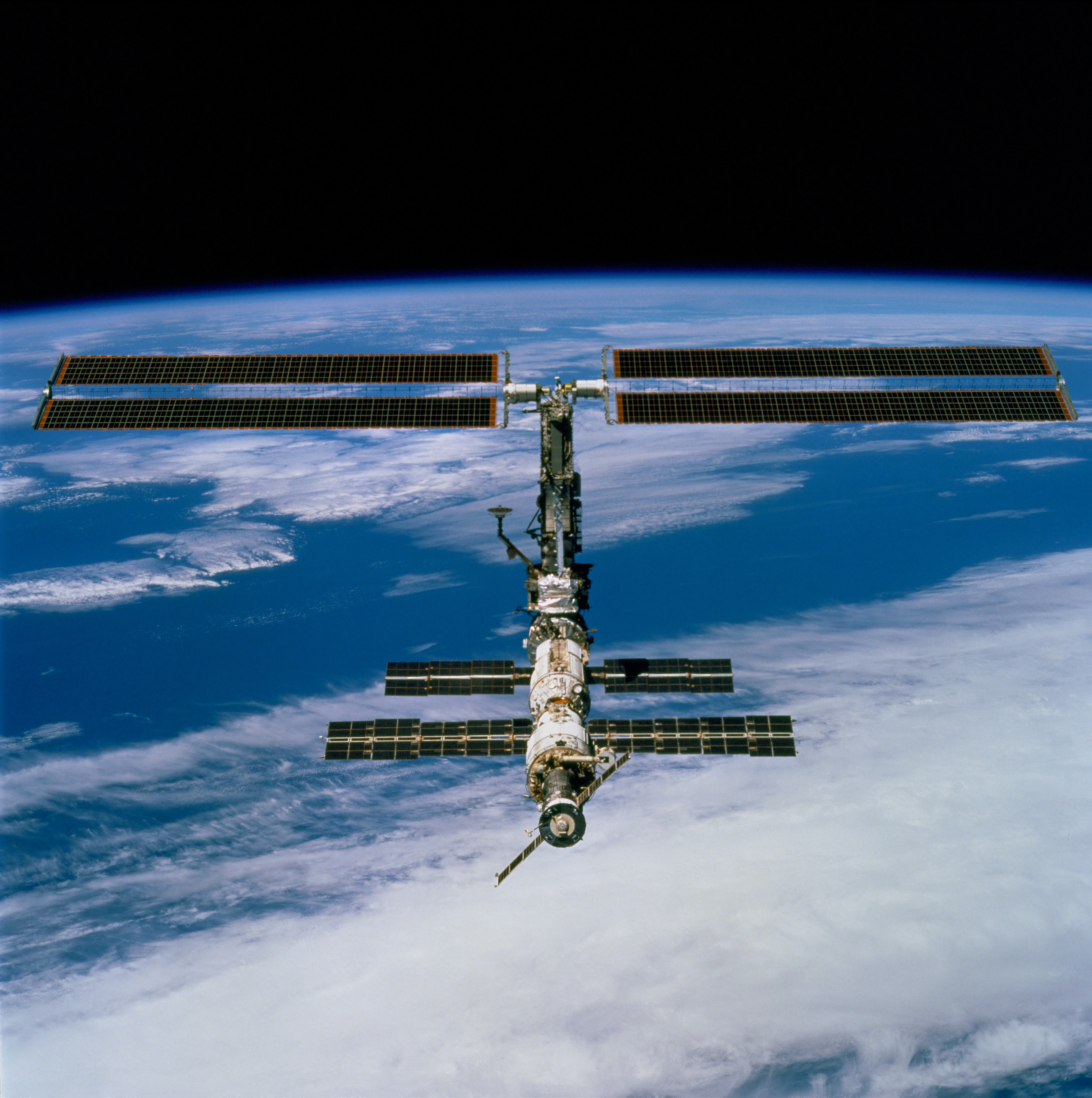 This picture is one of a series of 70mm frames exposed of the International Space Station (ISS) following undocking at 1:13 p.m. (CST), December 9, 2000. This series of images, as well as video and digital still imagery taken at the same time, represent the first imagery of the entire station with its new solar array panels deployed. Before separation, the shuttle and space station had been docked to one another for 6 days, 23 hours and 13 minutes. Endeavour moved downward from the space station, then began a tail-first circle at a distance of about 500 feet. The maneuver, with pilot Michael J. Bloomfield at the controls, took about an hour. While Endeavour flew that circle, the two spacecraft, moving at five miles a second, navigated about two-thirds of the way around the Earth. Undocking took place 235 statute miles above the border of Kazakhstan and China. When Endeavour made its final separation burn, the orbiter and the space station were near the northeastern coast of South America.